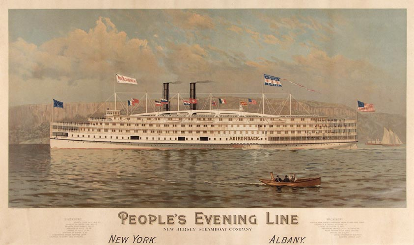 People's Evening Line: New Jersey Steamboat Company. Steamship Adirondack. Chromolithograph, undated, c.1890. Printed by the Gray Lithographic Co. N.Y. Two columns, "Dimensions," eight lines; "Machinery," eight lines, which describe the boat and engine. "Lighted throughout by electricity. "Image size 19 x 37 7/8" (48.2 x 96.2 cm).